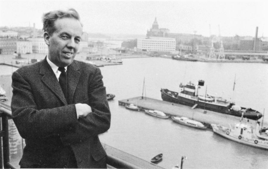 Photograph of the American journalist Werner Wiskari (1918–2008) in Helsinki.